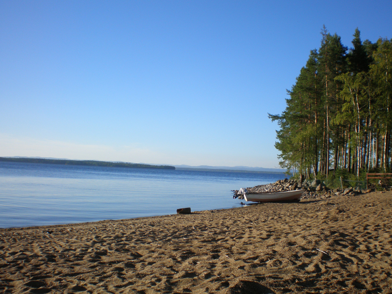 A beach in Norra Sannäs